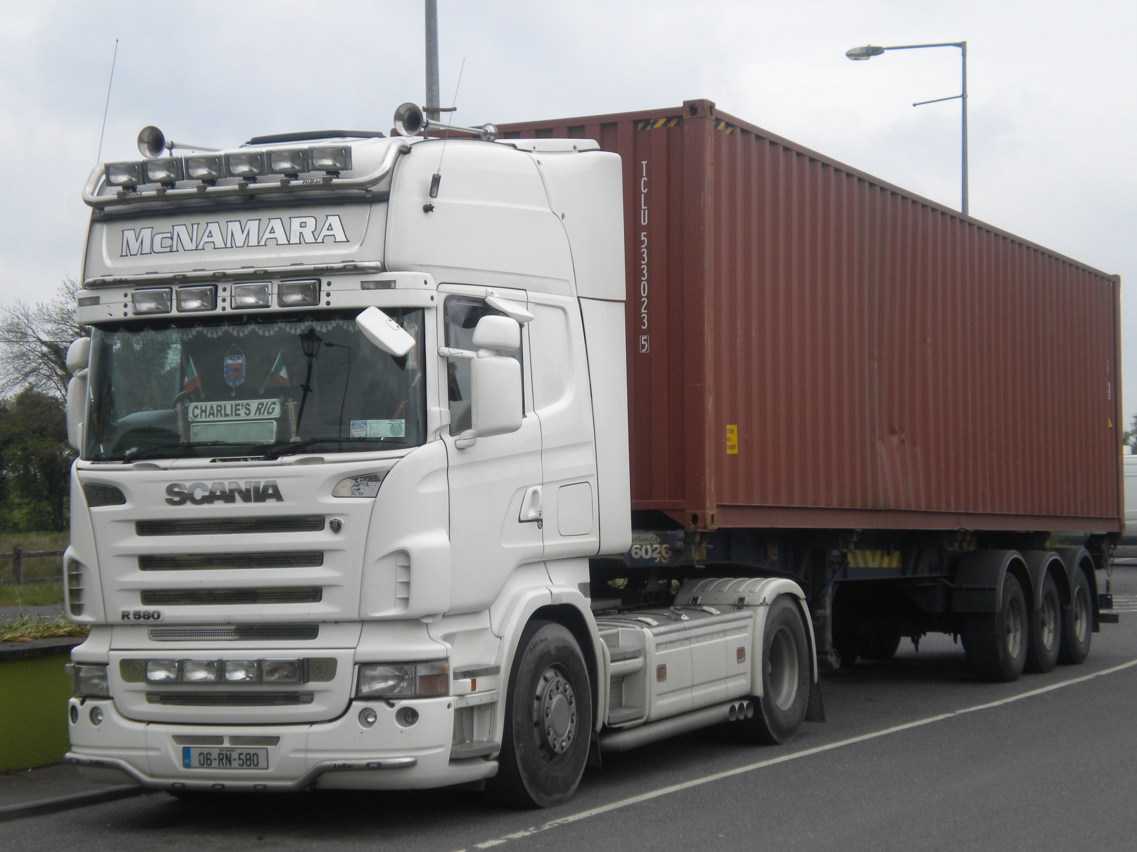 A nicely customised 2006 R580 Scania from McNamara Transport - pulled in at Mother Hubbards Truck Stop and Restaurant at Moyvalley, Co. Kildare Ireland on 18th May 2012.